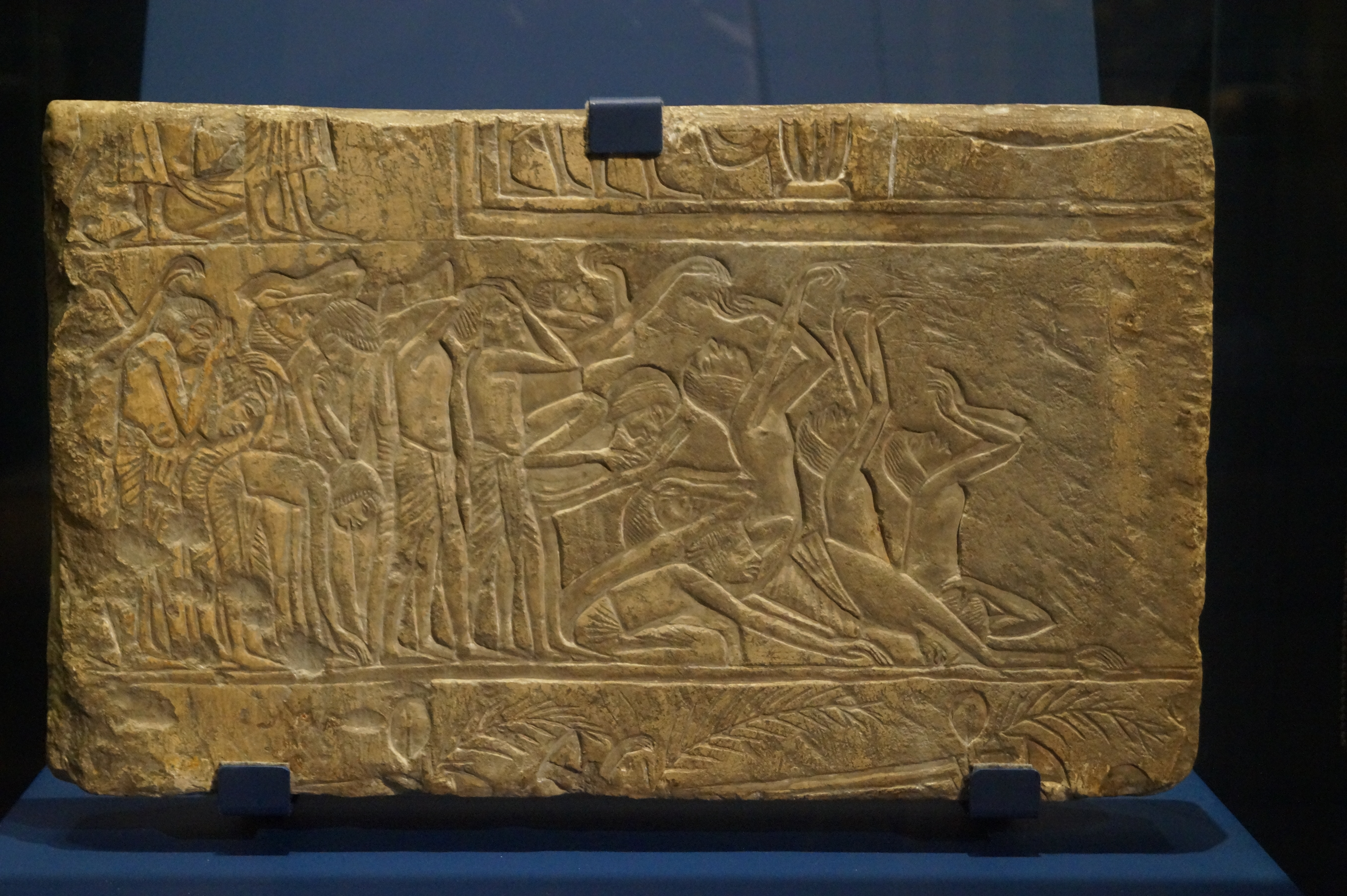 Egyptian antiquities in the Pushkin Museum, Moscow